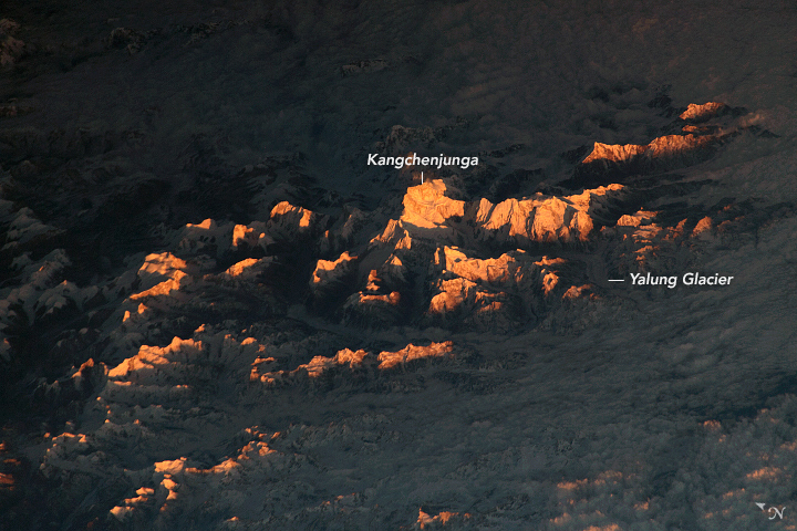 As the International Space Station (ISS) was traveling over India towards the day-night terminator, an astronaut shot this photograph of Earth’s third-highest summit, Kangchenjunga, and its surrounding peaks warmly lit by the setting Sun. With the Sun low in the sky, the light was passing through more atmosphere, which scatters it towards the red end of the visible spectrum. Kangchenjunga rises more than 8500 meters (28,000 feet) above sea level. It stands in eastern Nepal near the border with India and about 120 kilometers (75 miles) east-southeast of Mount Everest. The apex of Kangchenjunga is surrounded by valley glaciers, some of which (like Yalung) are discernable in the shadows of this image. Just out of reach of the Sun’s rays, a deck of low-lying clouds lingers over the valley floors. Thirteen other mountain peaks on Earth rise higher than 8000 meters (26,000 feet). These are known by mountaineers and climbers as the “eight-thousanders.” Oblique views such as this one give the dauntingly dangerous terrain a three-dimensional appearance and depth. Astronaut photograph ISS061-E-92131 was acquired on December 16, 2019, with a Nikon D5 digital camera using a 500 millimeter lens and is provided by the ISS Crew Earth Observations Facility and the Earth Science and Remote Sensing Unit, Johnson Space Center. The image was taken by a member of the Expedition 61 crew.